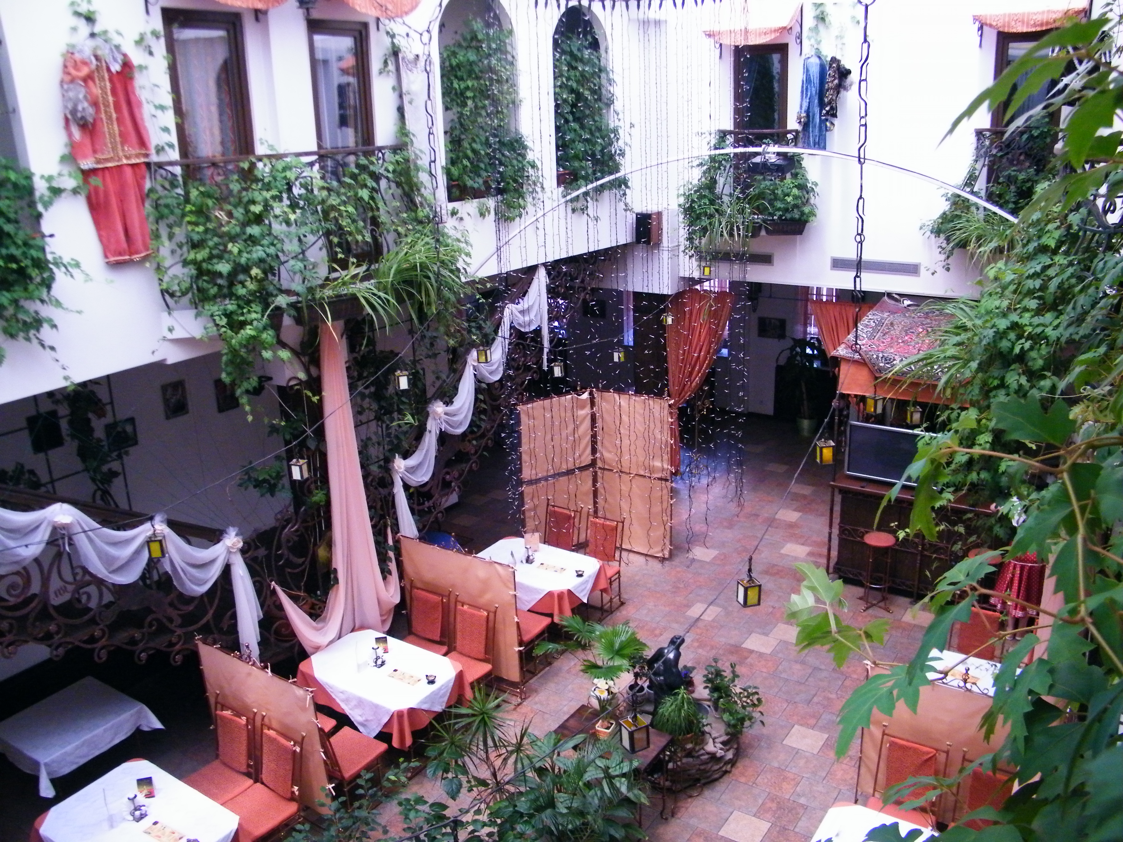 Hotel "Spanish Patio", Donetsk